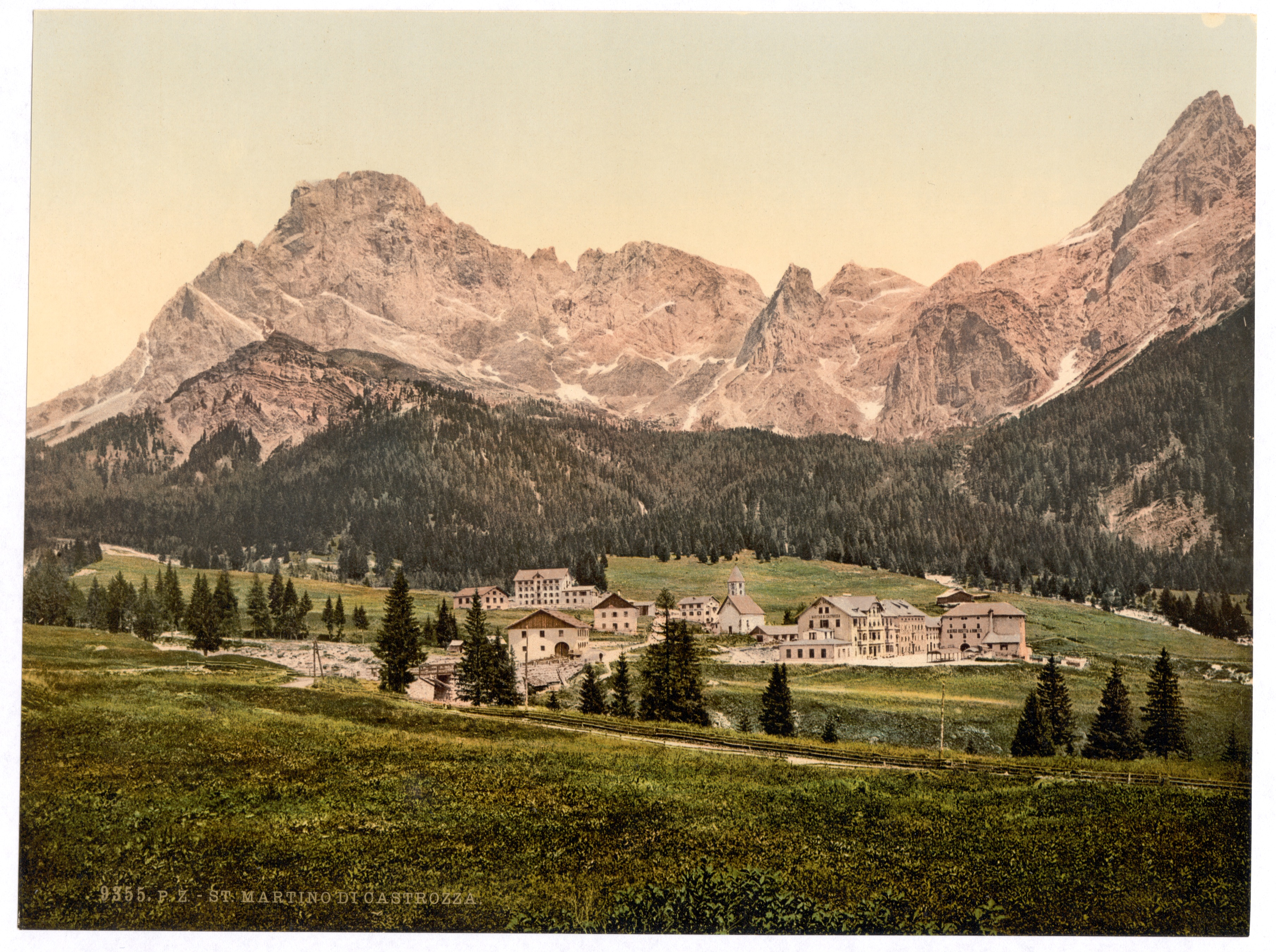 Forms part of: Views of the Austro-Hungarian Empire in the Photochrom print collection.; Title from the Detroit Publishing Co., Catalogue J-foreign section, Detroit, Mich. : Detroit Publishing Company, 1905.; Print no. "9355".